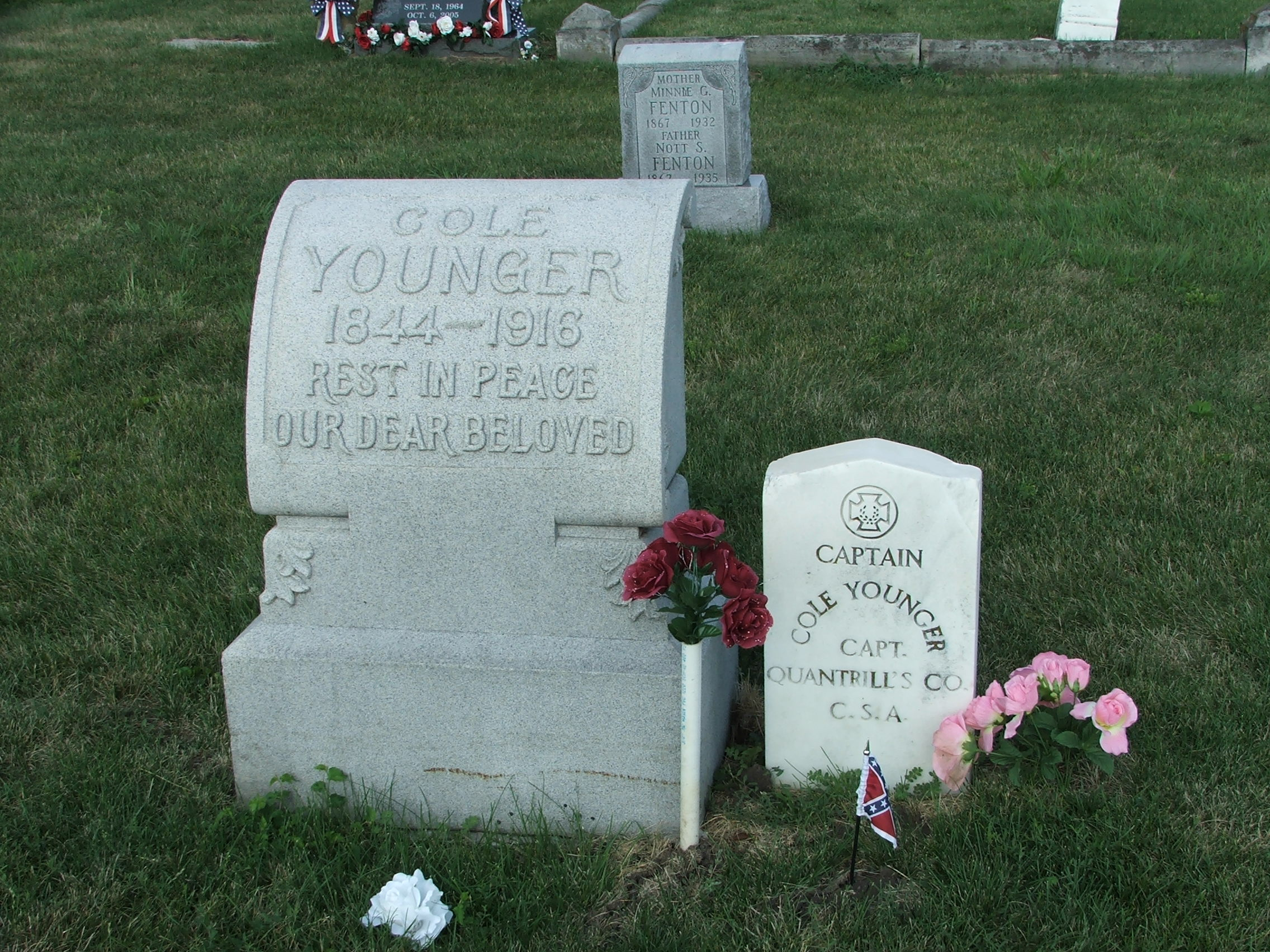 Cole Younger Gravesite, Lee's Summit Historical Cemetary, Lee's Summit, Missouri, USA